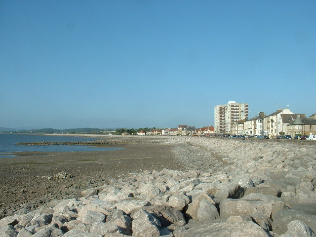 Bare, Morecambe shoreline. Looking north towards Princes Crescent flats